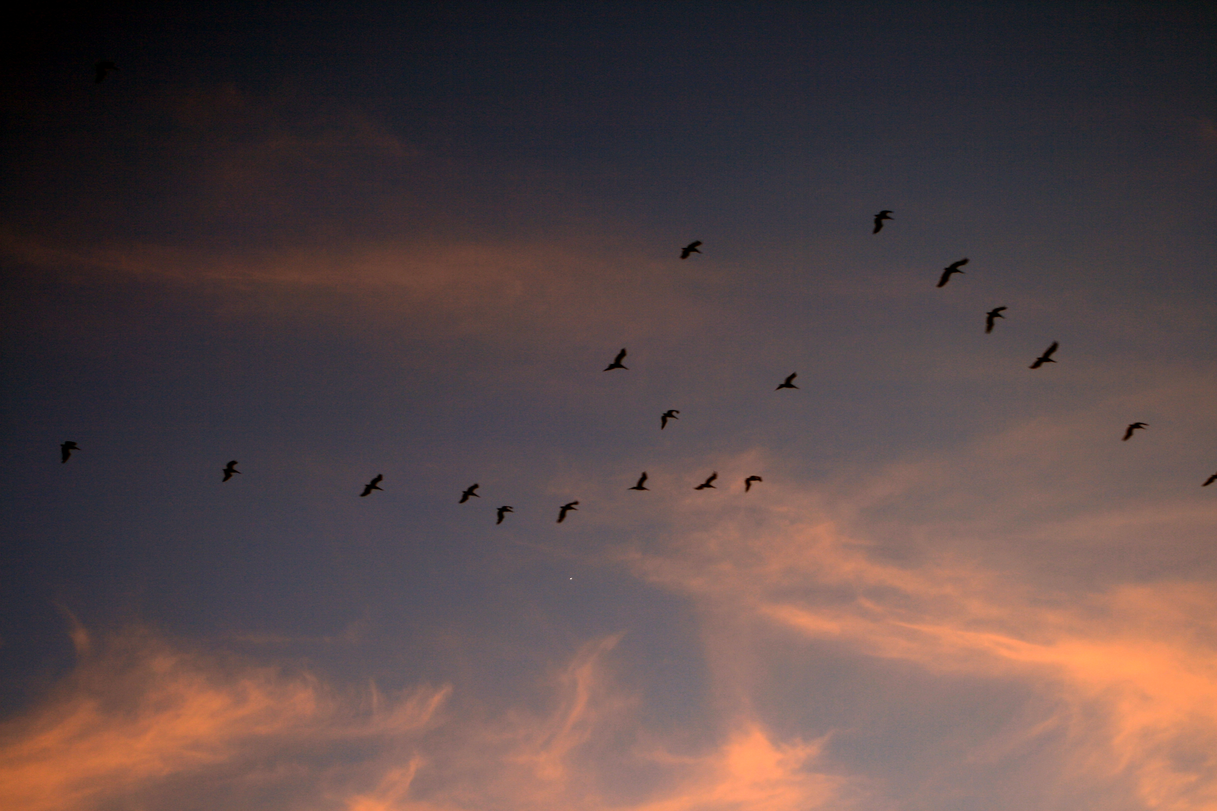 Venus is so bright that one could observe Venus with an aided eye even at twilight. The picture shows Venus and pelicans